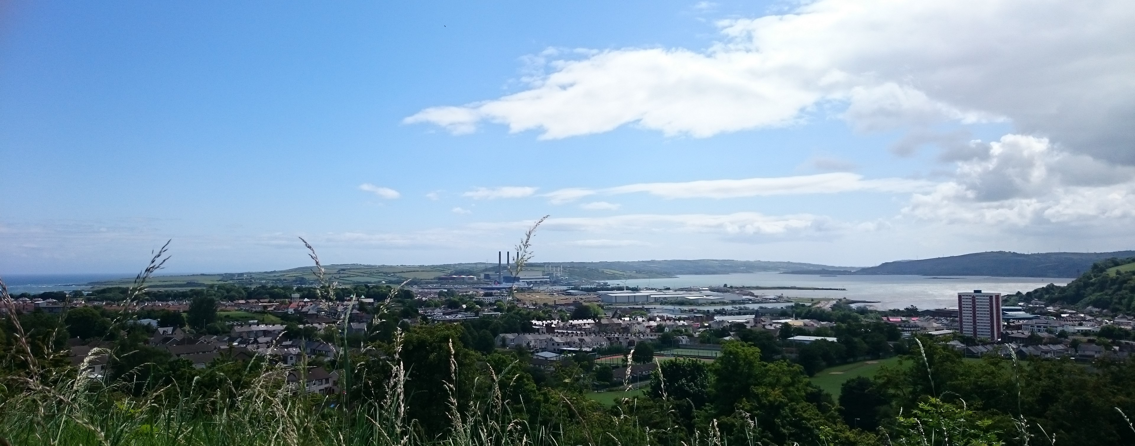 Larne from The Roddens (wide crop)